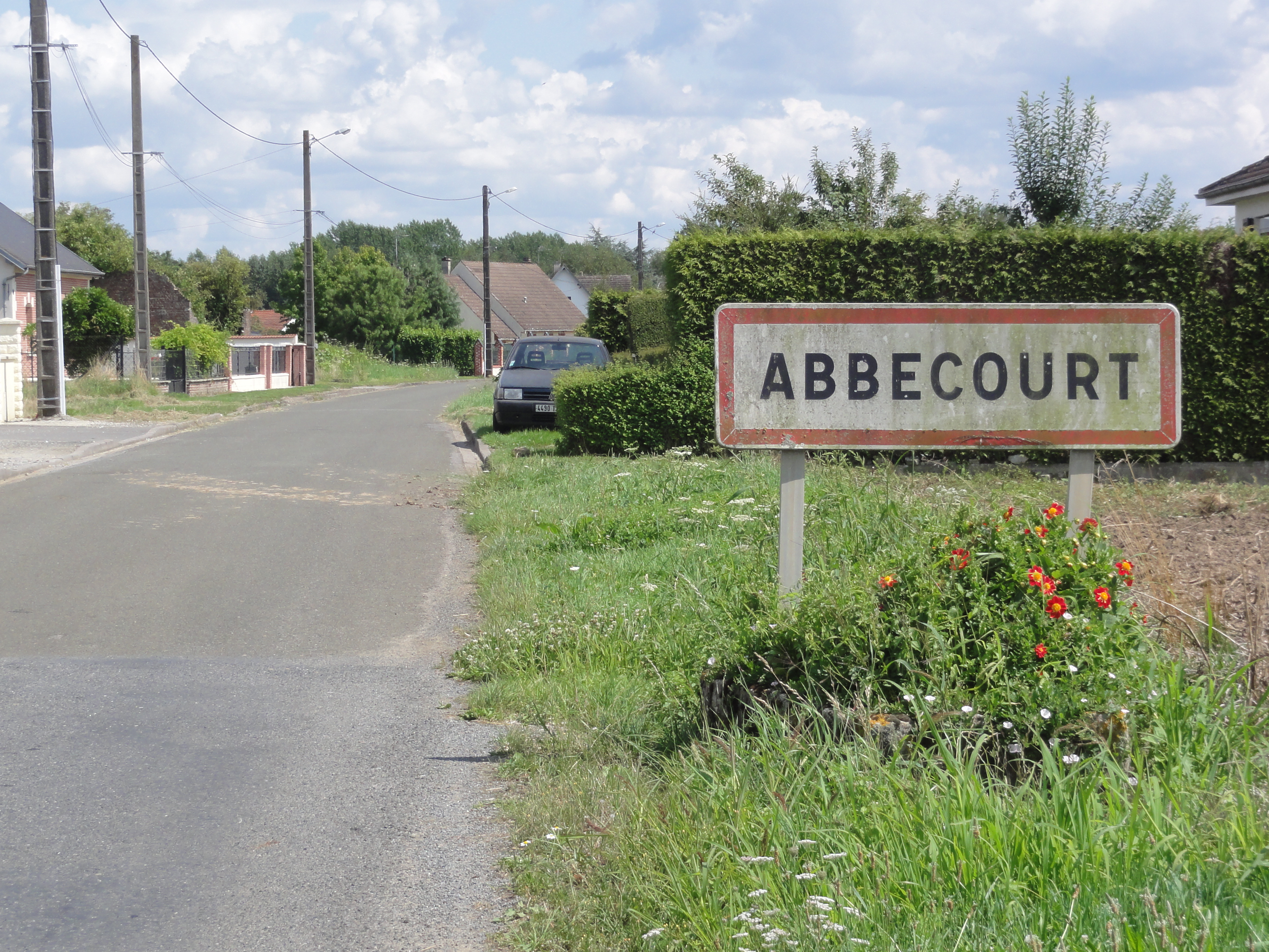 Abbécourt (Aisne) city limit sign